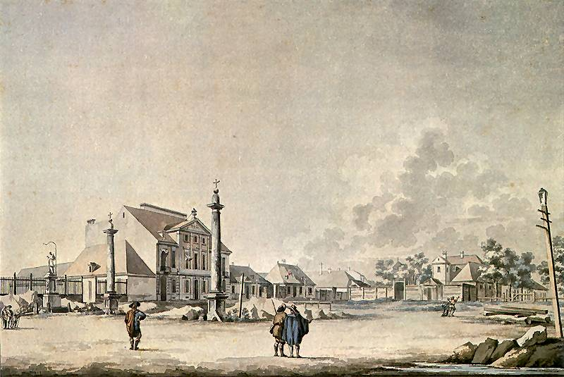 Plac Trzech Krzyzy